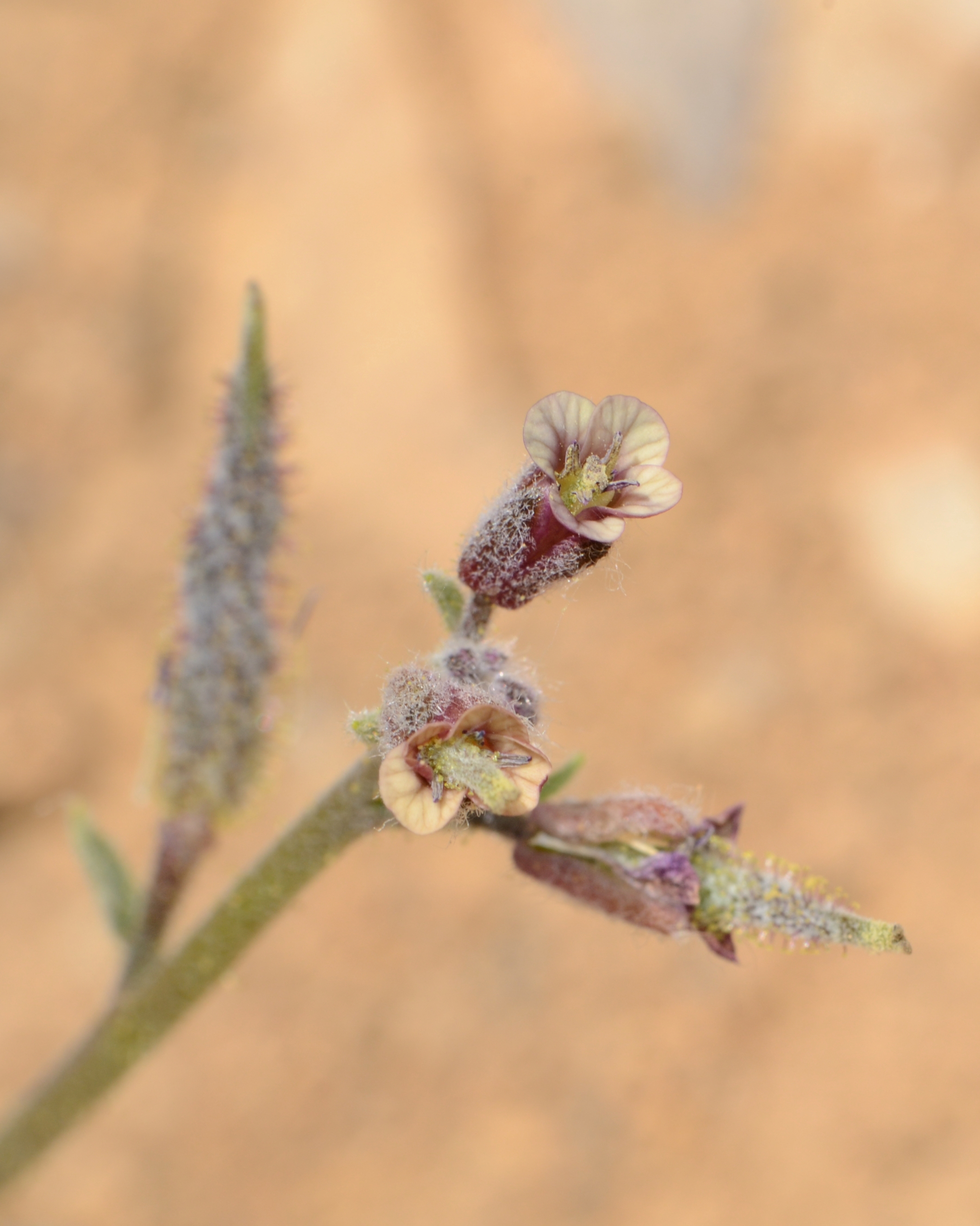 Anchonium billardierei, Mount Hermon, Golan heights, June 9, 2012.